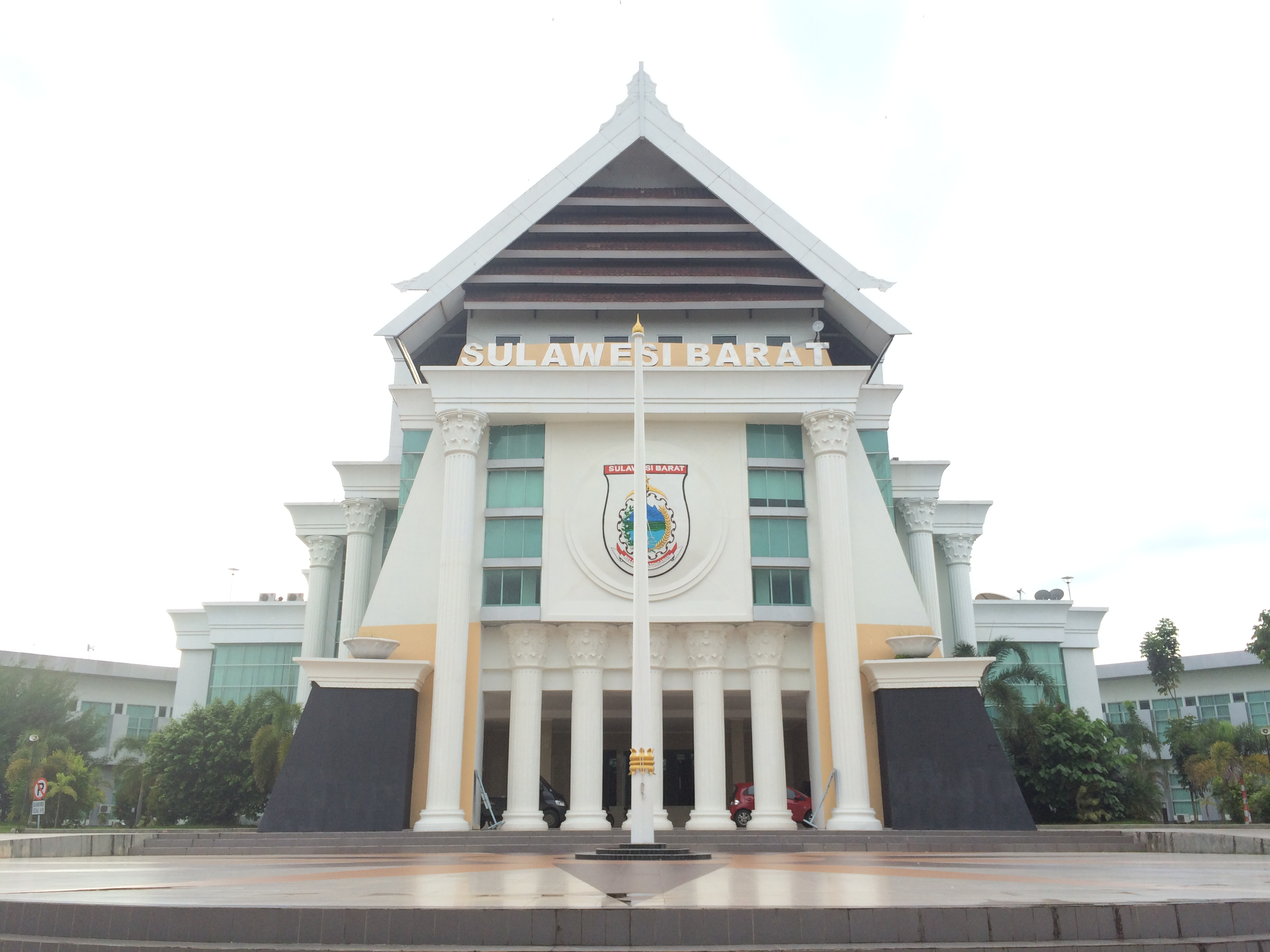 Office of the Governor of West Sulawesi in City of Mamuju